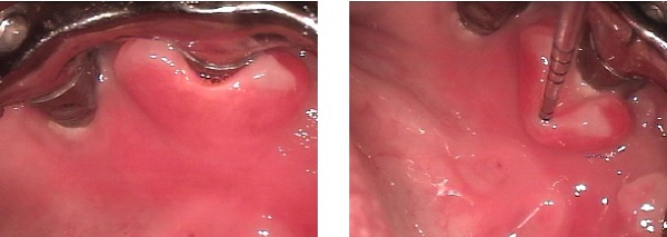 Epulis fissuratim 1